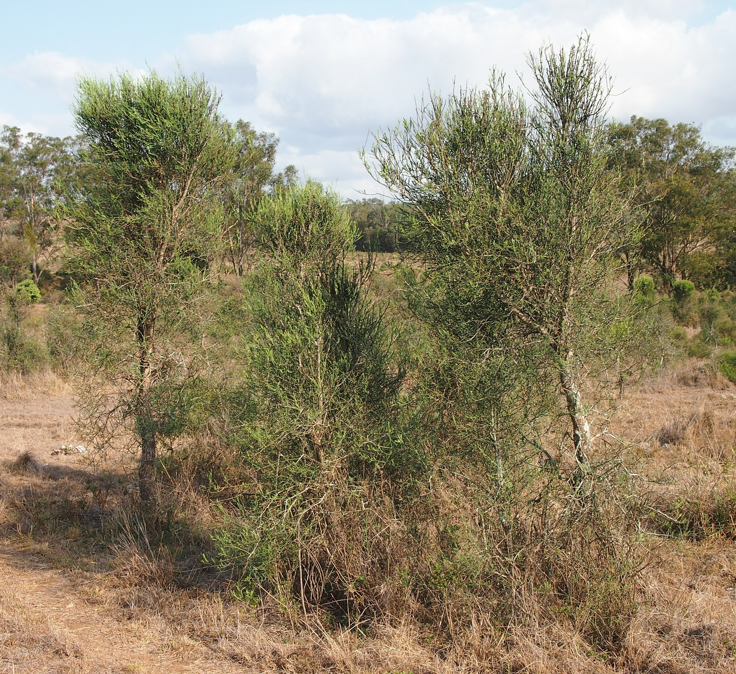 Citrus glauca bushes